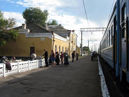 Вигляд на стару платформу та вокзал